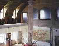 A picture of the Saal (meeting hall) at Herrnhaag, Germany,scene of religious festivals in the late 1740s under the supervision of community leader Chirstian Renatus von Zinzendorf. Currently (2009) undergoing restoration.